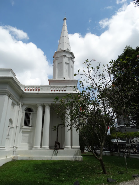 Armenische Kirche. Der erste Steinbau in Singapore